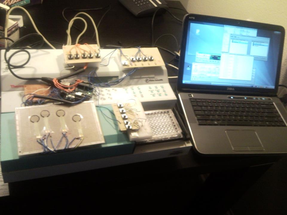 A picture of The Chromochord musical instrument